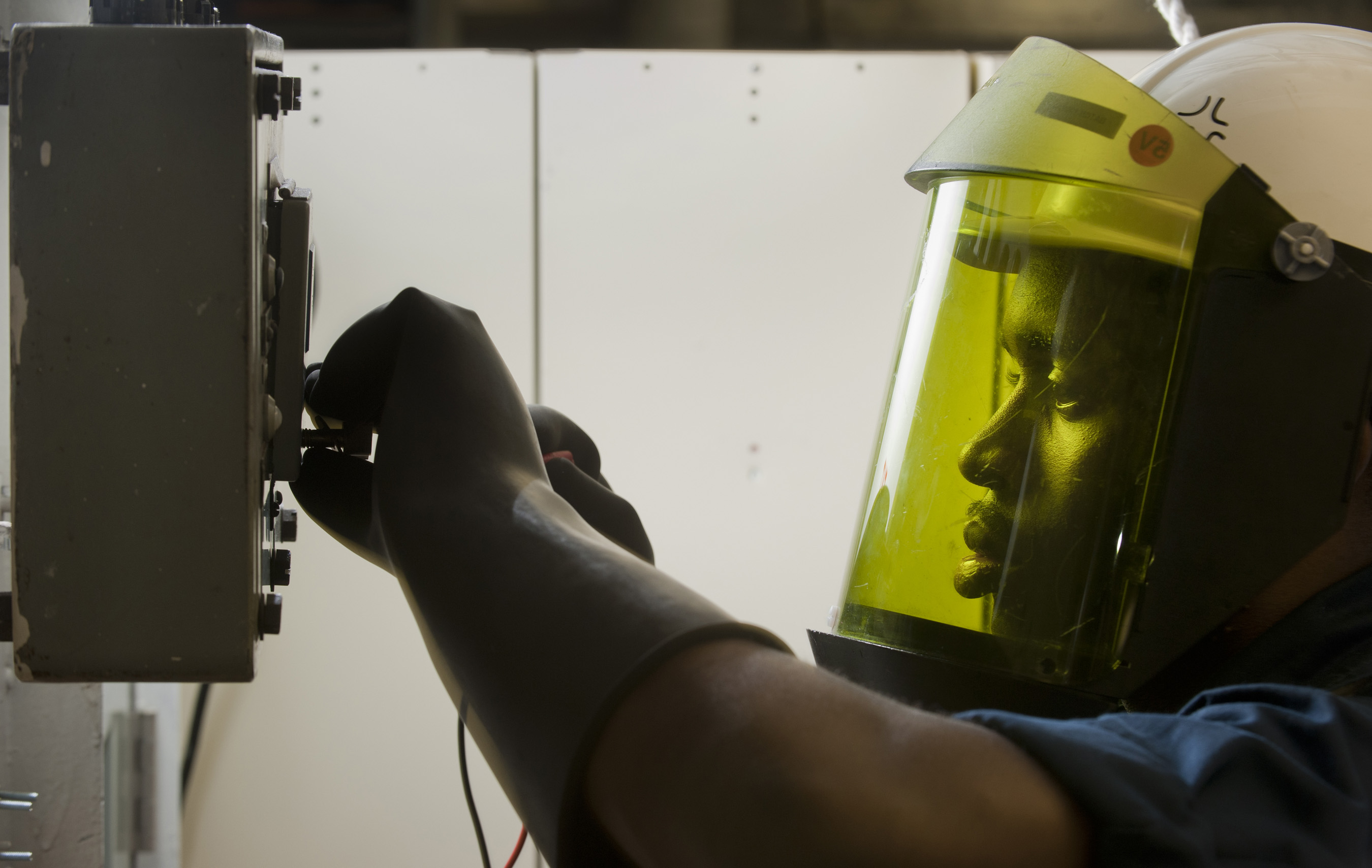 ARABIAN SEA (March 1, 2011) Electrician's Mate Fireman Alex Kline, assigned to the electrical division of the engineering department of the Nimitz-class aircraft carrier USS Carl Vinson (CVN 70), checks for bad fuses on a lighting panel. The Carl Vinson Carrier Strike Group is deployed supporting maritime security operations and theater security cooperation efforts in the U.S. 5th Fleet area of responsibility. (U.S. Navy photo by Mass Communication Specialist 2nd Class James R. Evans/Released)